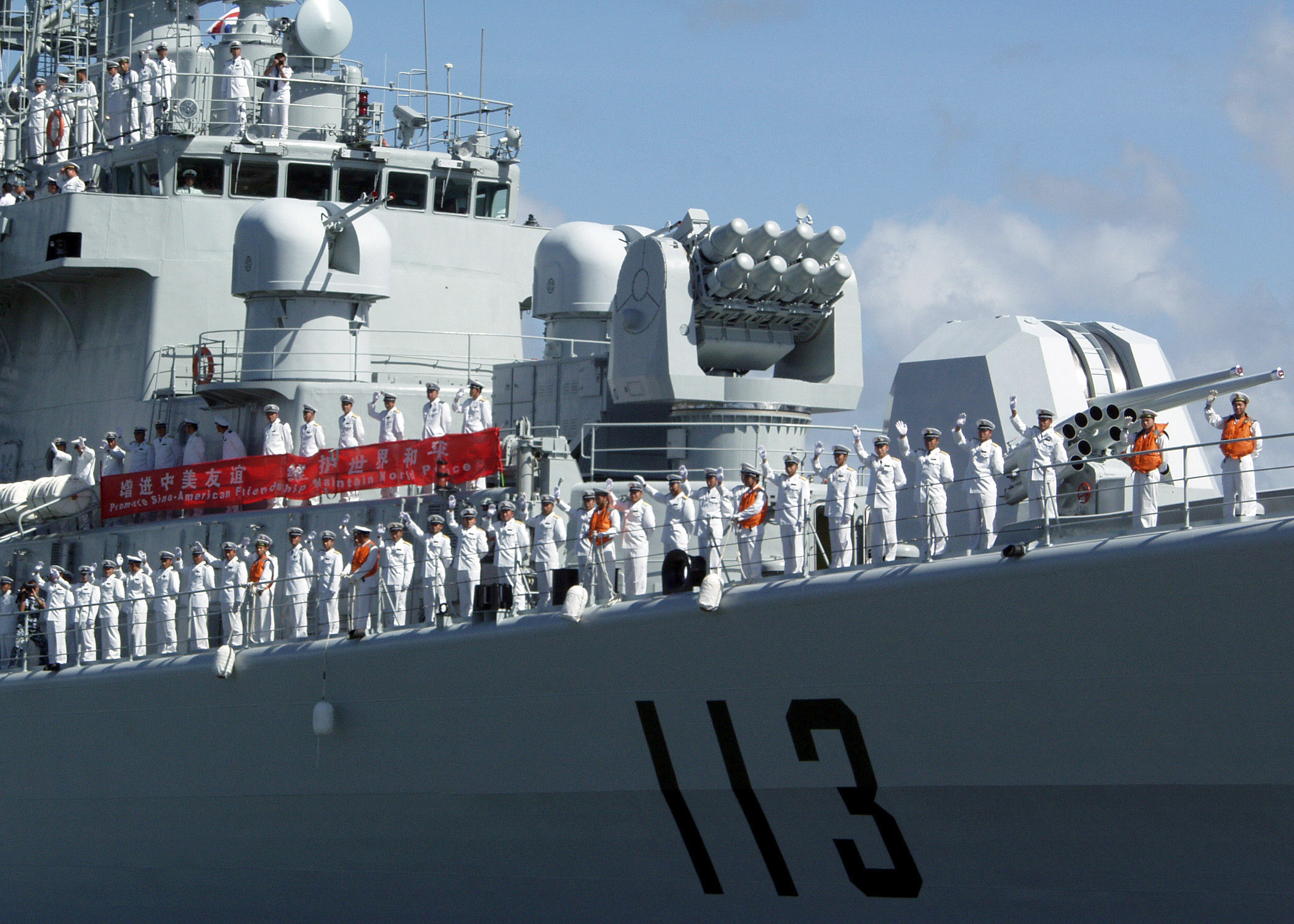 Pearl Harbor, Hawaii (Sept. 10, 2006) - Sailors aboard the Chinese Navy destroyer Qingdao (DDG 113) man the rails as they depart Pearl Harbor. The ship arrived in Pearl Harbor on Sept. 6, along with the oiler Hongzehu (AOR 881), for a routine port visit. U.S. Navy photo by Chief Mass Communication Specialist David Rush (RELEASED)